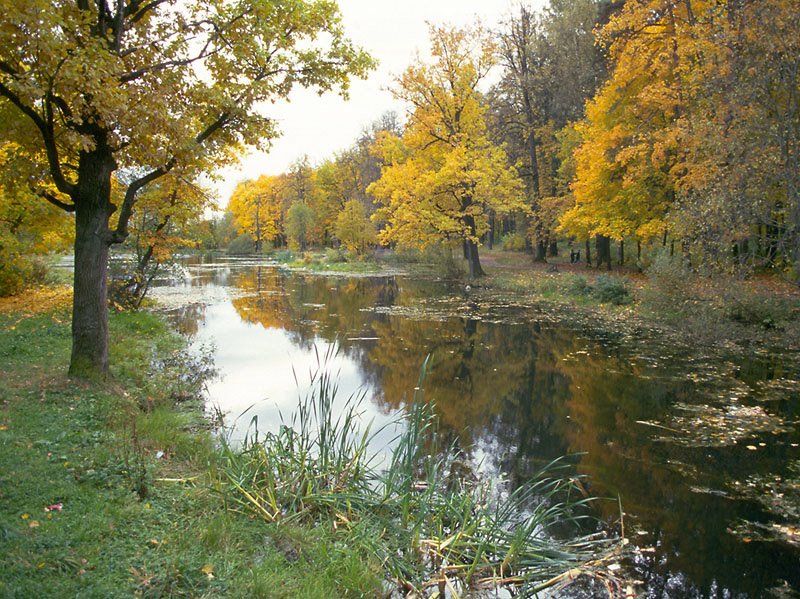 Krasnogorsk Park